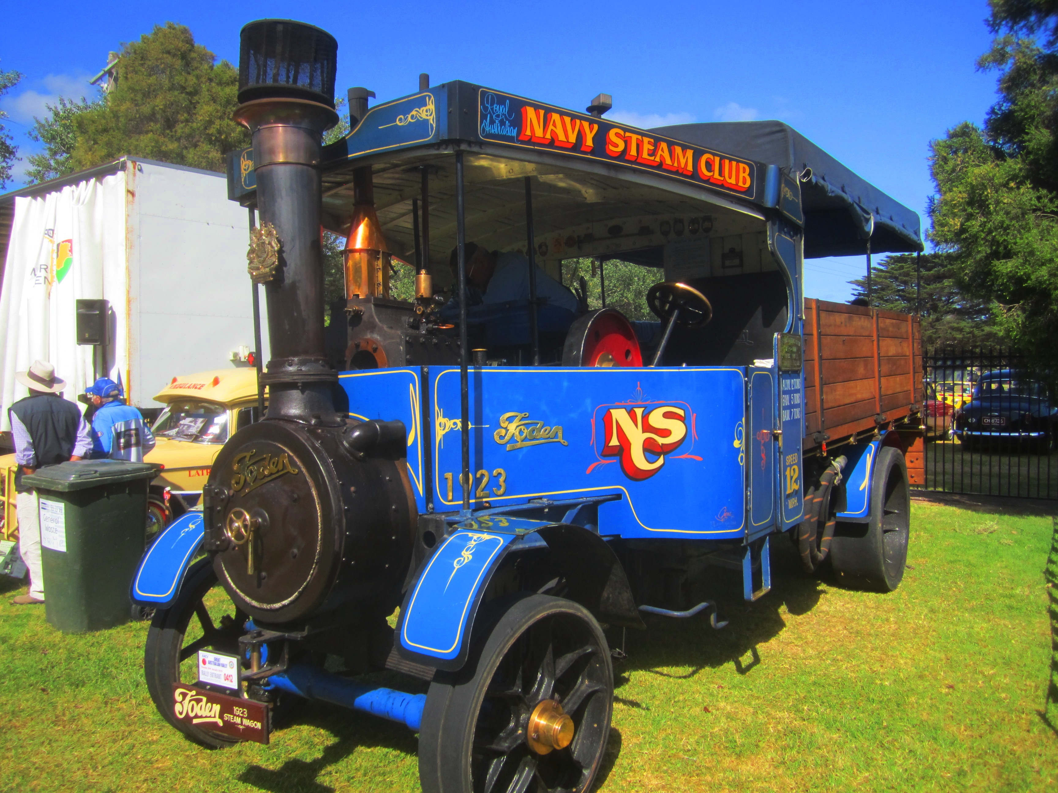 Foden Trucks, 1856-2006, was a British truck and bus manufacturing company. Traction Engines were built from 1880 and from 1900, Steam Lorries produced for the next 30 years. These were the earliest form of truck The steam wagon came in two basic forms. The overtype designs, (like the Foden), looked like a cross between a traction engine and a lorry. The front resembled a traction engine by having a cab built around a horizontal fire-tube boiler with a round smokebox and chimney. The undertype designs have the engine under the chassis (although the boiler - usually a vertical type - remains in the cab), and generally resemble motor lorries rather than traction engines. Undertype designs often had the benefit of a more enclosed cab, and a much shorter length for the same carrying capacity.